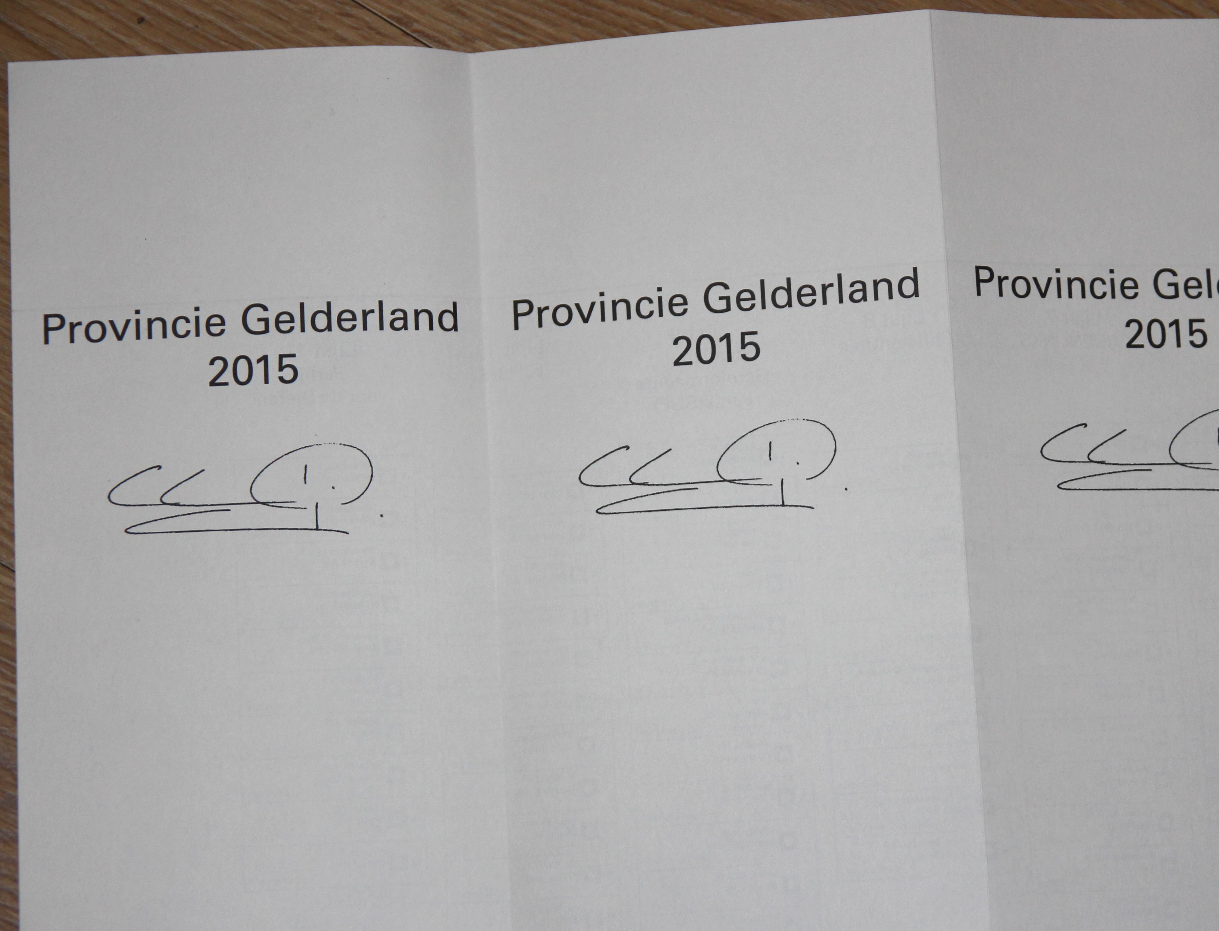 First Chamber Netherlands voting paper.